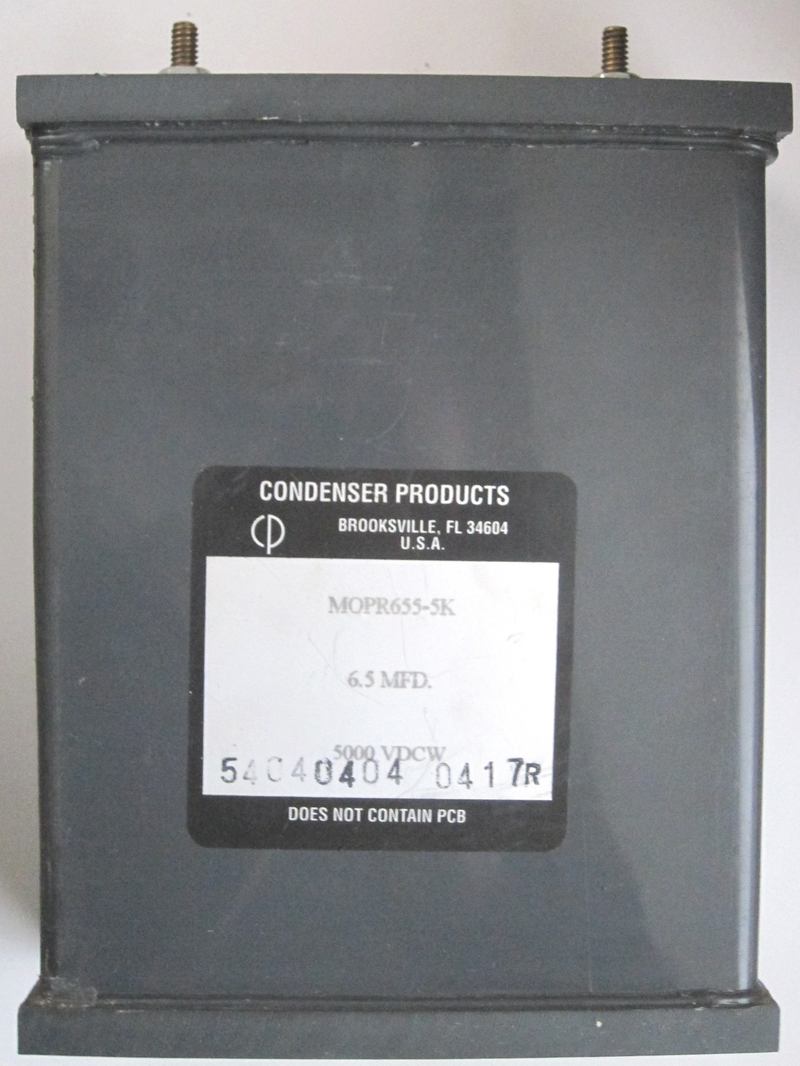 A mylar-film, oil-filled capacitor. The capacitor was designed with extremely low inductance and low resistance. It is used to deliver very fast discharges that are required for a dye laser. The capacitor is rated for 6.5 microfarad at 5000 volts, and is capable of discharging 85 joules of energy in 1.2 microseconds, producing a pulsed-power level over 70 megawatts. The capacitor's size is 8 inches tall, 6 inches wide and 2 1/2 inches thick.